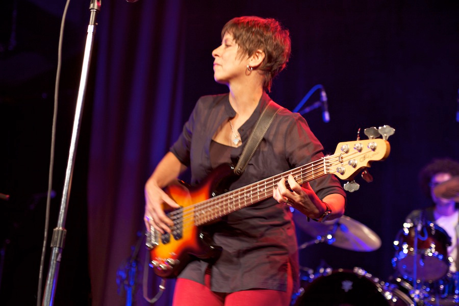 Sara Lee at the O+ Festival in Woodstock, NY